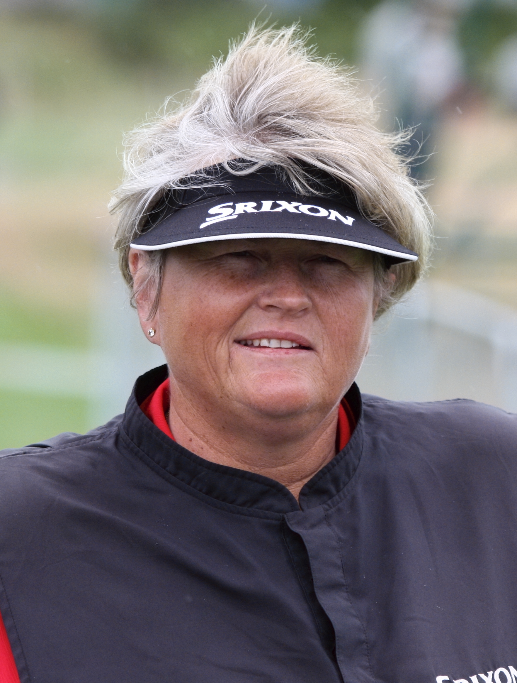 LYTHAM ST ANNES, UNITED KINGDOM - JULY 28: Laura Davies of England on the 16th tee during second practice round before 2009 Ricoh Women's British Open held at Royal Lytham & St Annes on July 28, 2009 in Lytham St Annes, England. (Photo by Wojciech Migda)